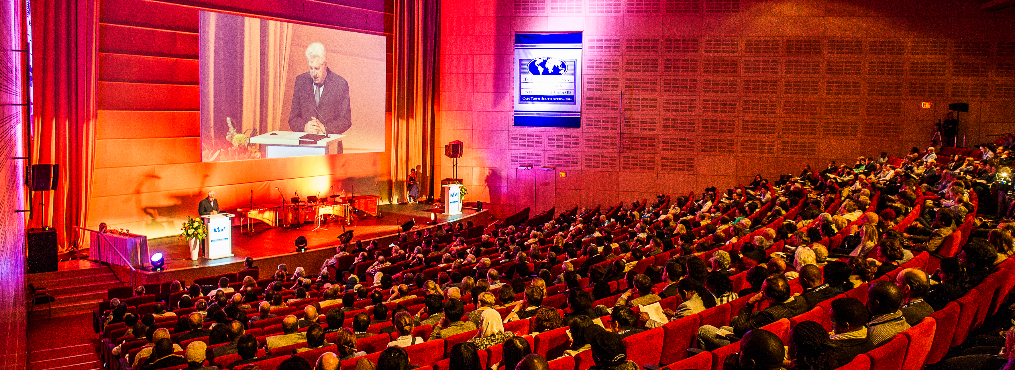 16th ICID Opening Ceremony